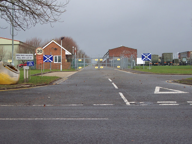 Entrance to Horne Barracks, Larkhill